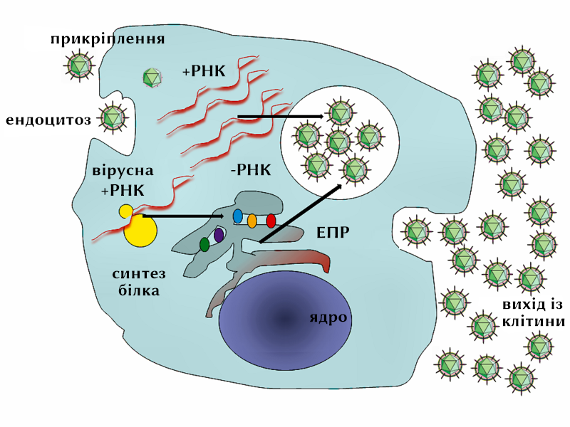 HepC replication